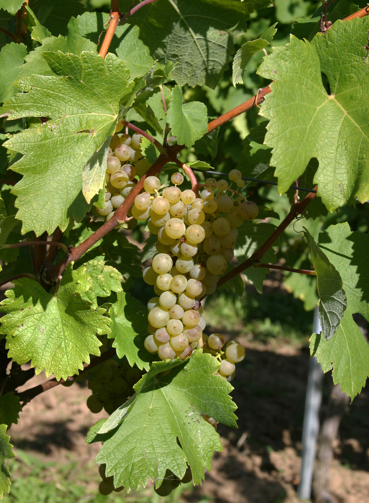 Leafs and grapes of the grape variety Huxelrebe.